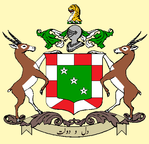 Coat of arms of Jaora State This work is in the public domain in India because its term of copyright has expired. The Indian Copyright Act applies in India, to works first published in India. According to The Indian Copyright Act, 1957 (Chapter V Section 25), Anonymous works, photographs, cinematographic works, sound recordings, government works, and works of corporate authorship or of international organizations enter the public domain 60 years after the date on which they were first published, counted from the beginning of the following calendar year (ie. as of 2016, works published prior to 1 January 1956 are considered public domain). Posthumous works (other than those above) enter the public domain after 60 years from publication date. Any other kind of work enters the public domain 60 years after the author's death. Text of laws, judicial opinions, and other government reports are free from copyright. Photographs created before 1958 are in the public domain 50 years after creation, as per the Copyright Act 1911. This file may not be in the public domain outside India. The creator and year of publication are essential information and must be provided. See Wikipedia:Public domain and Wikipedia:Copyrights for more details. This image shows a flag, a coat of arms, a seal or some other official insignia. The use of such symbols is restricted in many countries. These restrictions are independent of the copyright status.